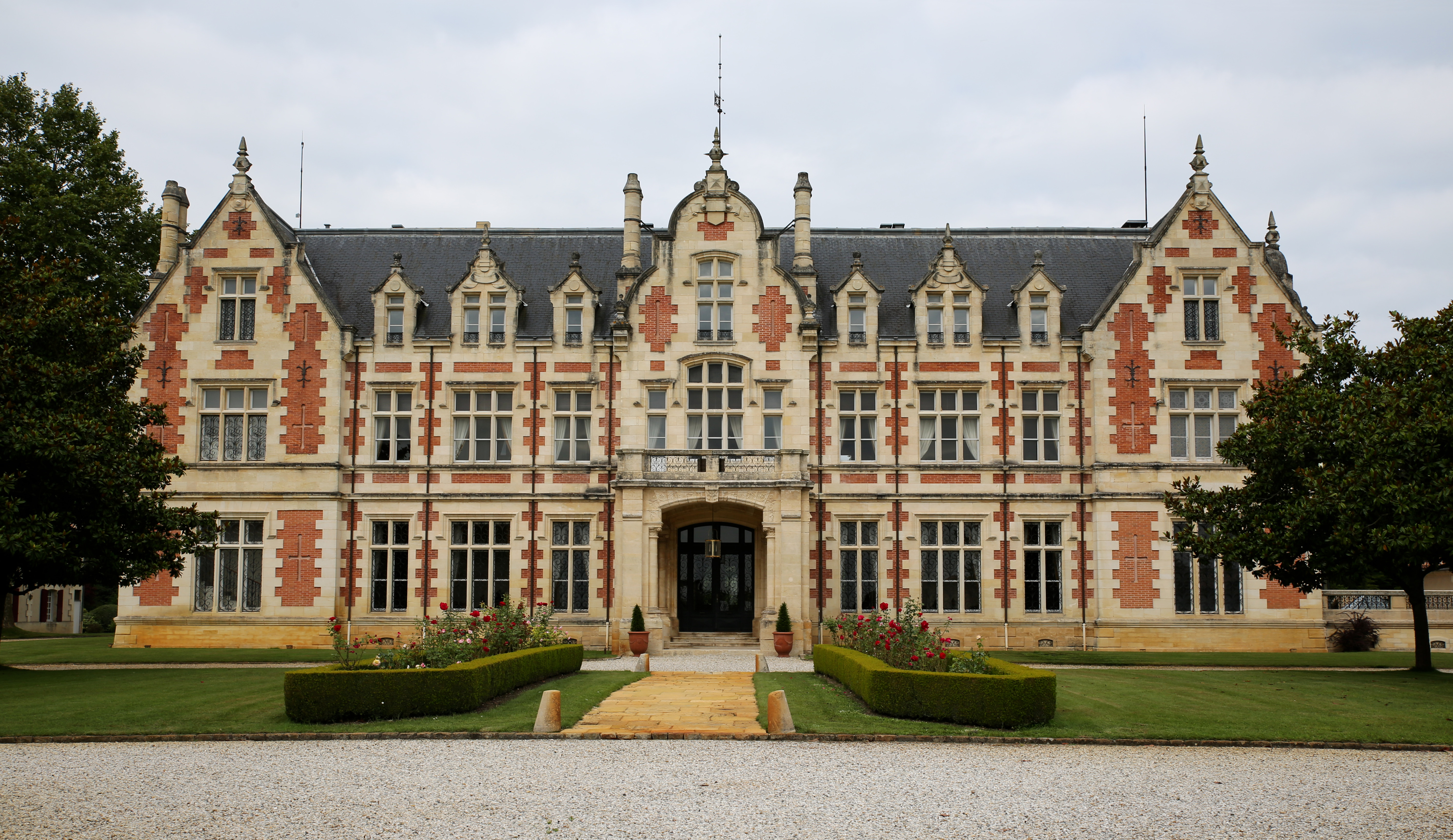 Château Cantenac Brown